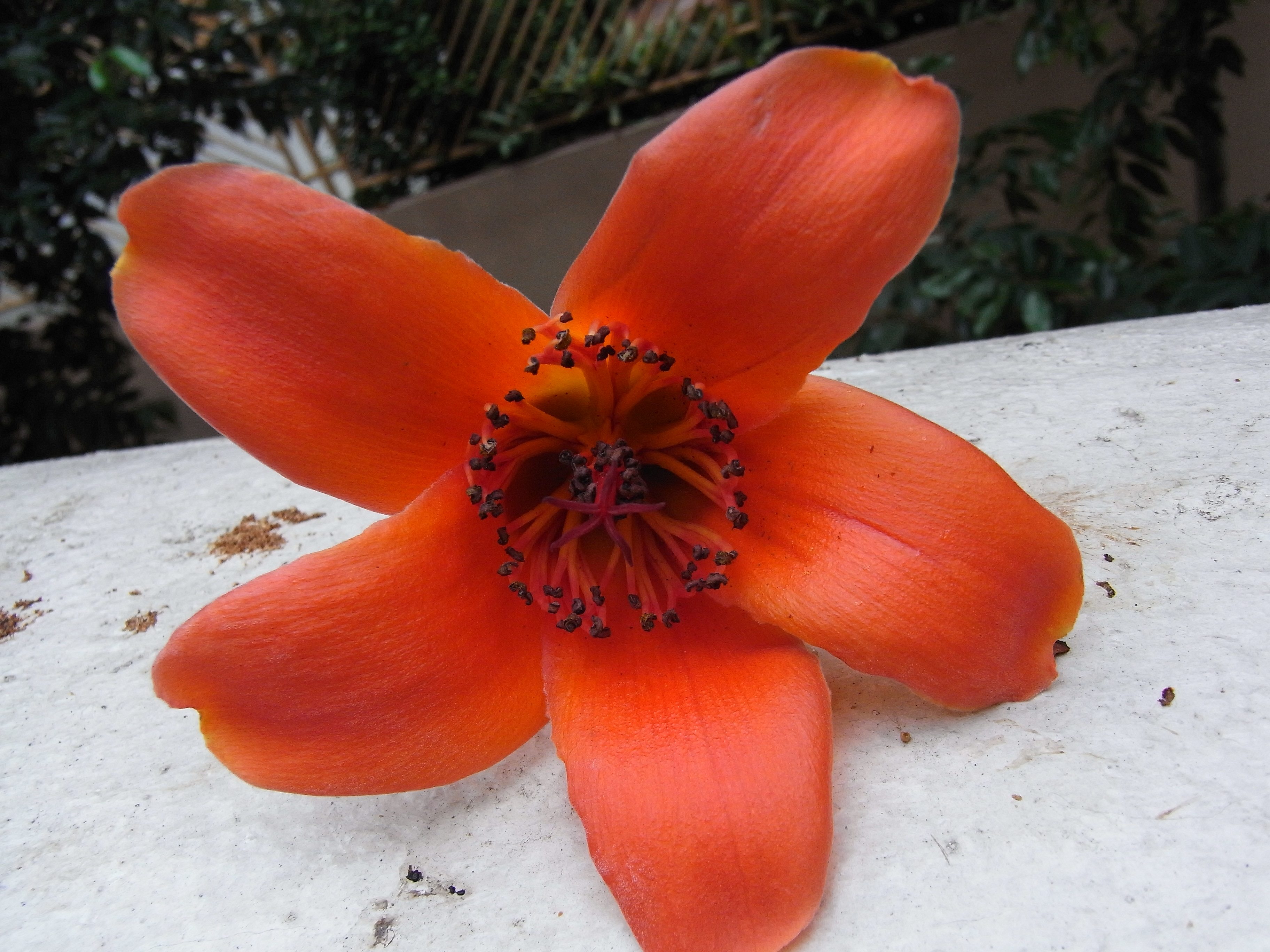 上環 卜公花園, Blake Garden, Sheung Wan, Hong Kong